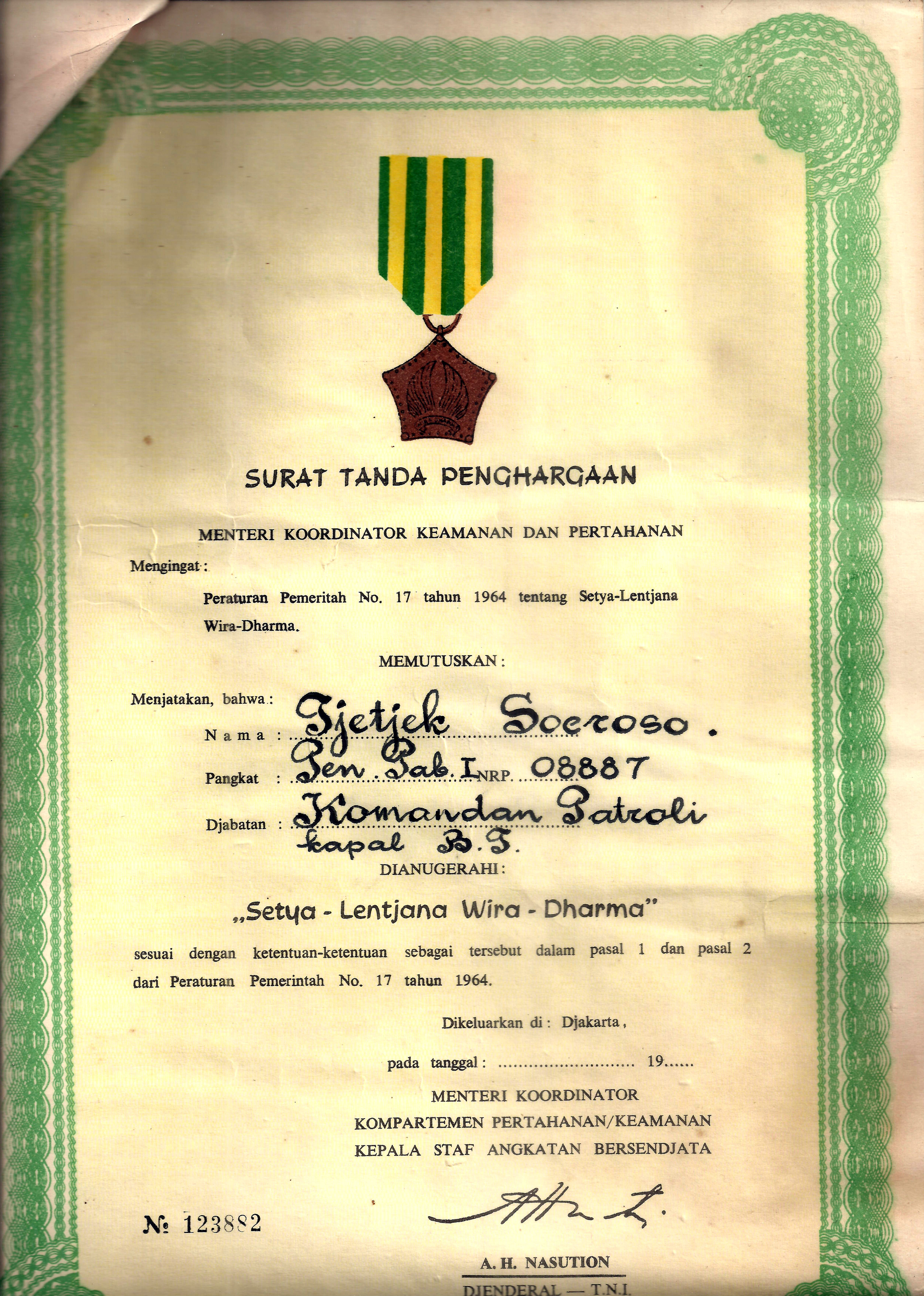 Satya Lentjana Wira Dharma diploma as received by my grandfather